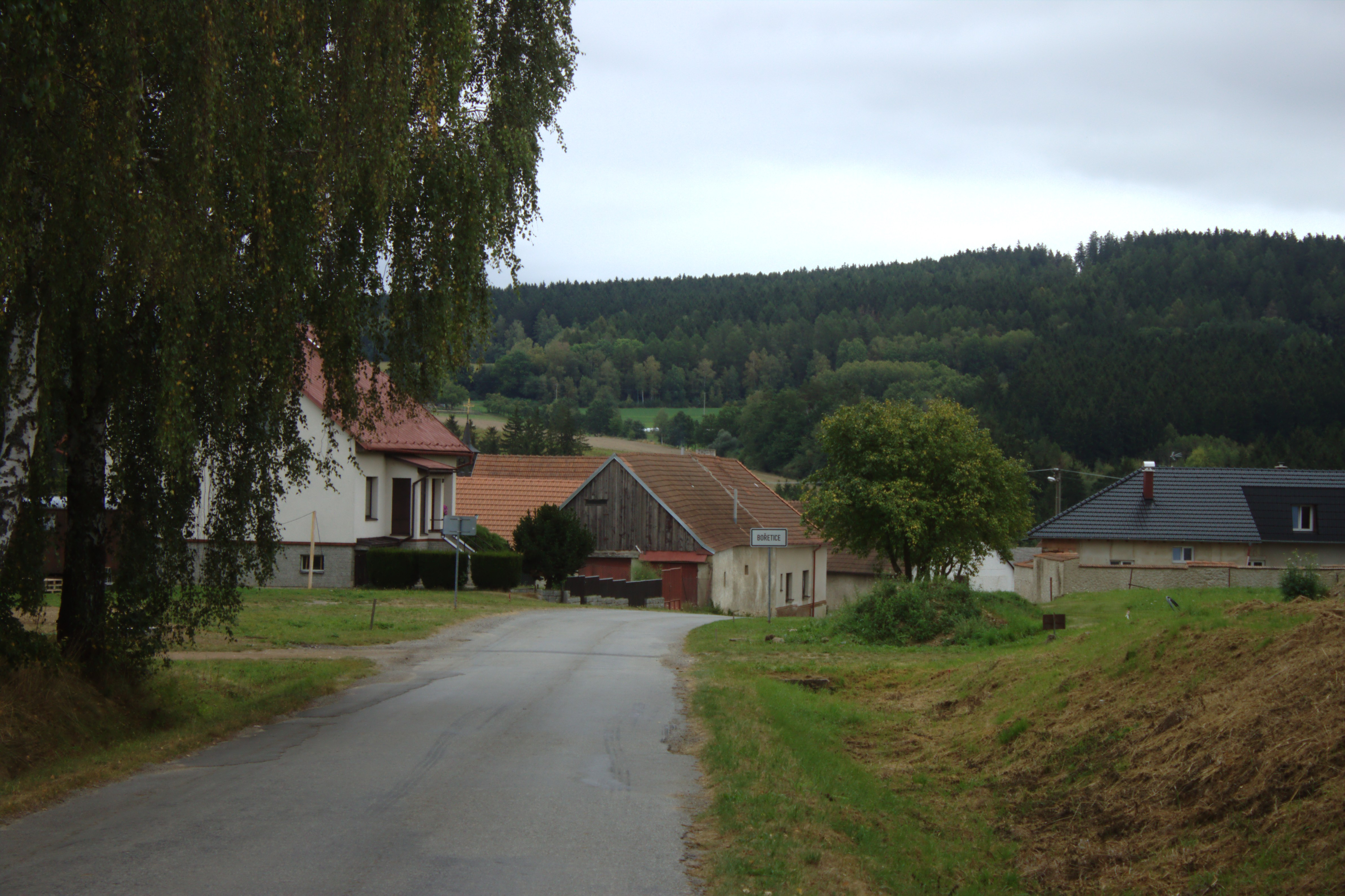 Main road to the village of Bořetice, Vysočina Region, CZ